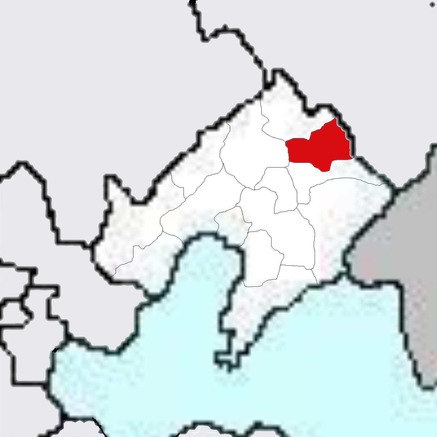 Maps of Liaoning Province, China